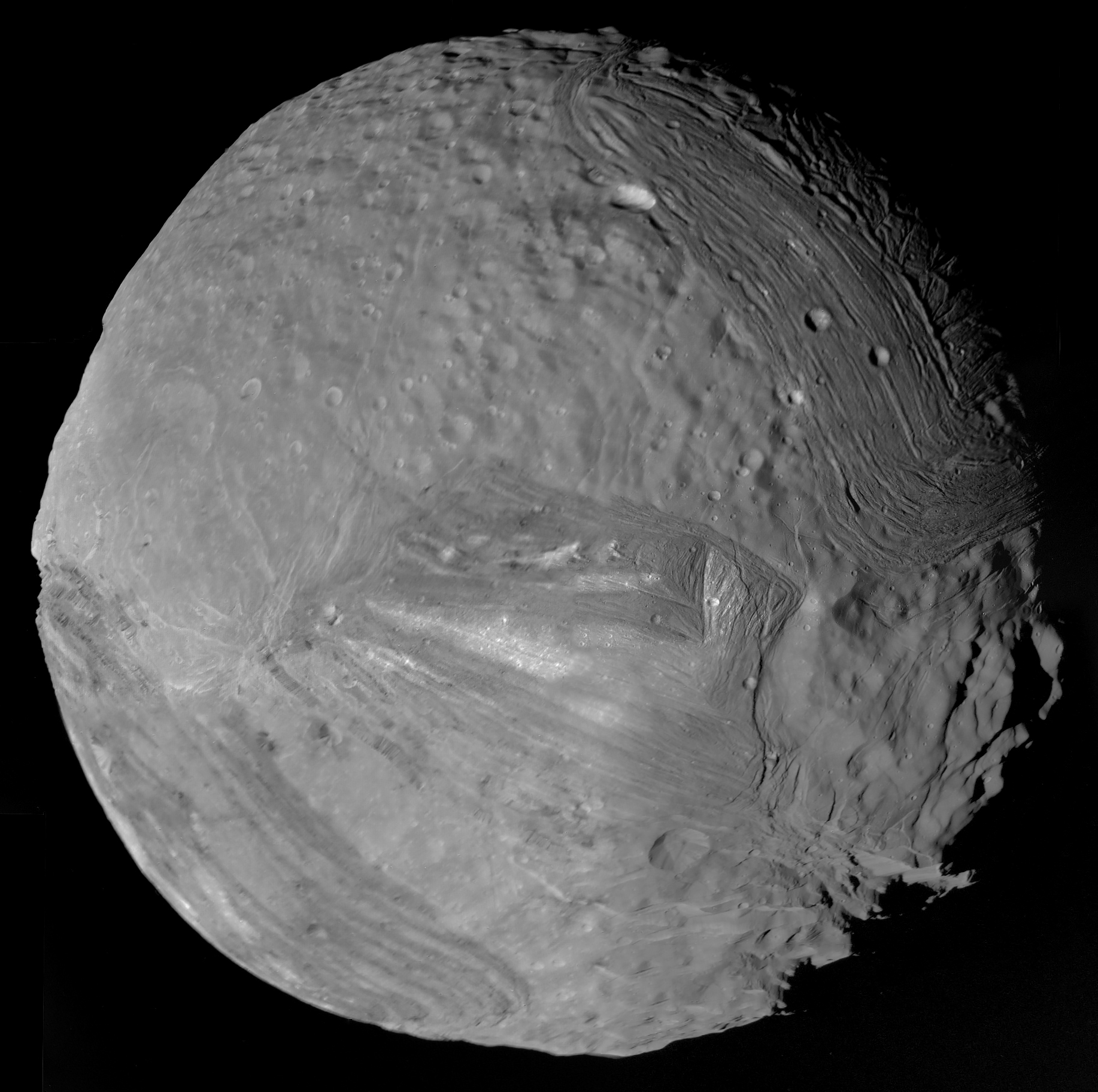 Assembled using images of Miranda (moon of Uranus) taken by Voyager 2 on January 24 1986. Given the very different perspective angles on each image, some "liberty" was taken to make this work. NASA/JPL-Caltech/Kevin M. Gill